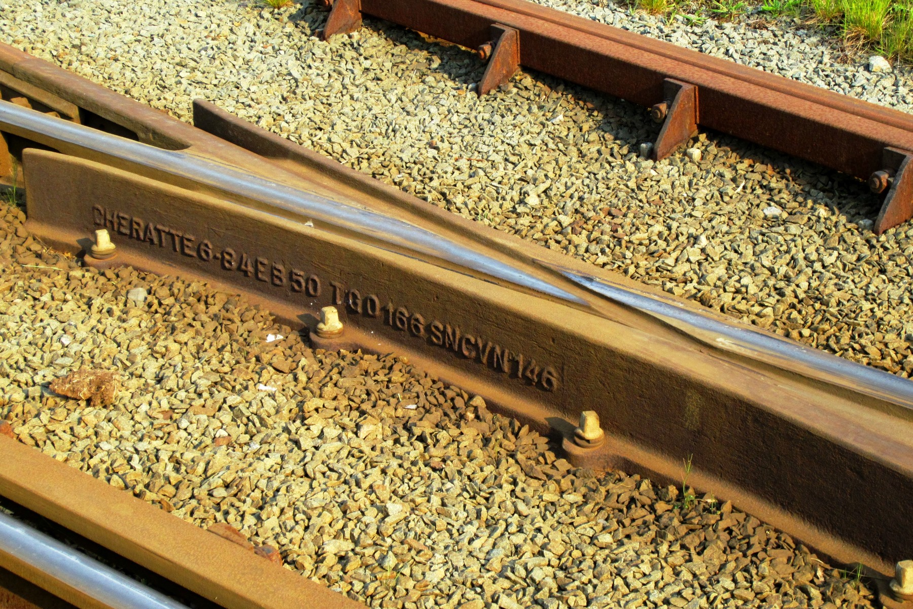 Keywords: SNCV, vicinal railways, rail, metre gauge, tram, train, track, pointwork, De Haan, Belgium